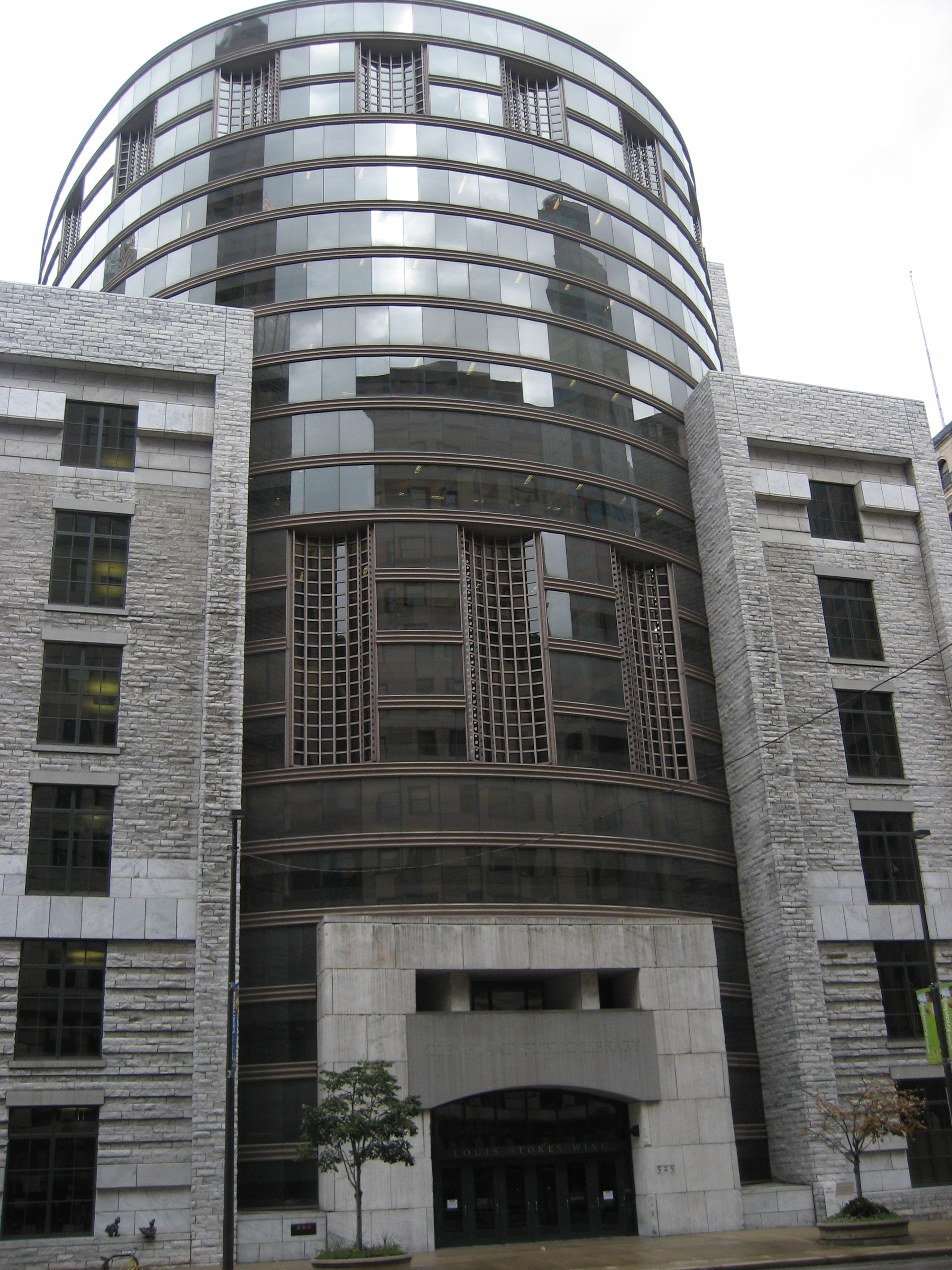 The Louis Stokes Wing of the Cleveland Public Library's main library in downtown Cleveland, Ohio